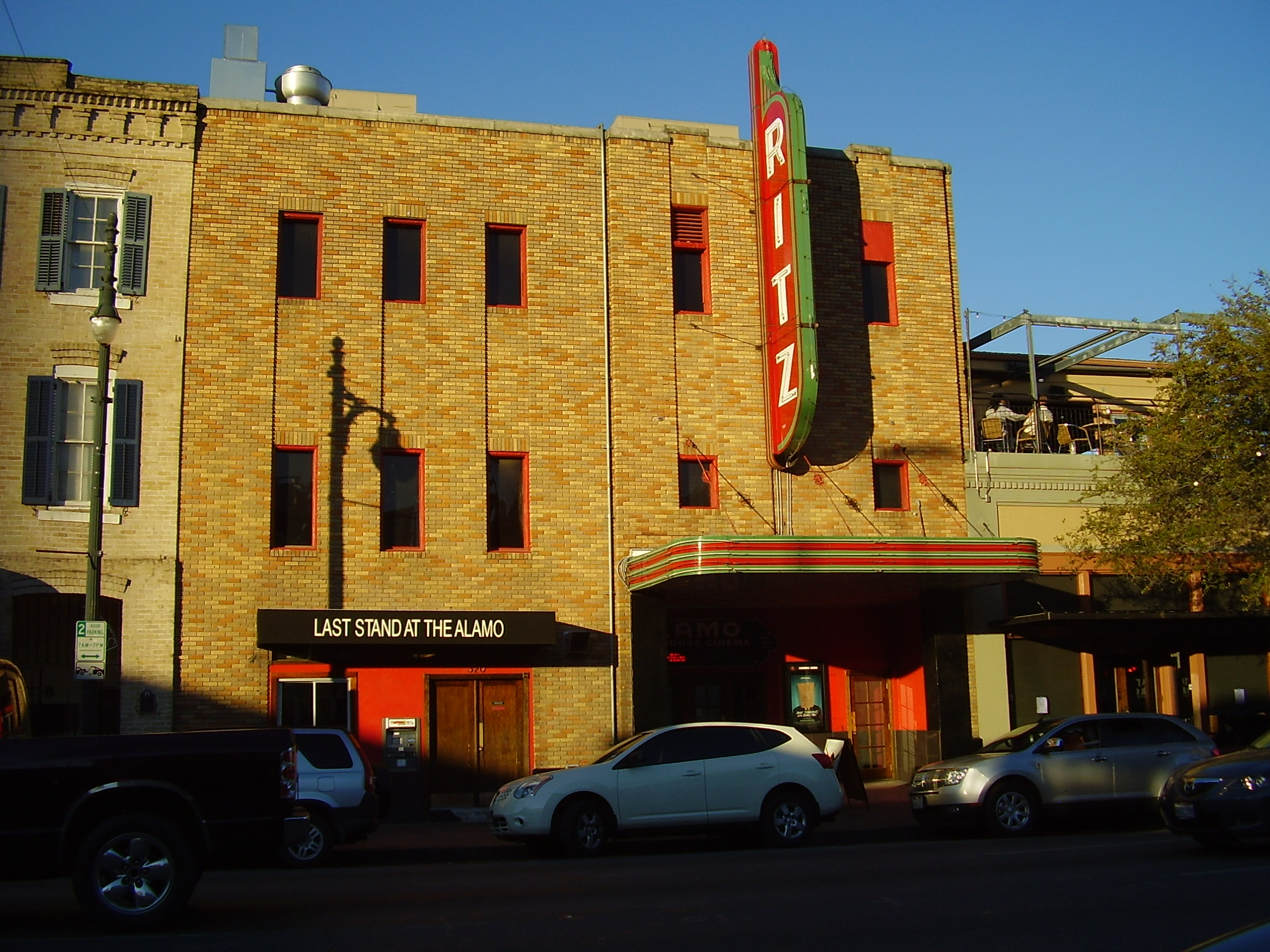 Ritz Theater in Austin